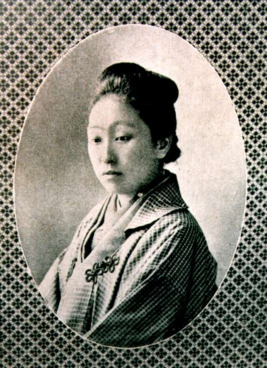 Photo of Fukuda Hideko